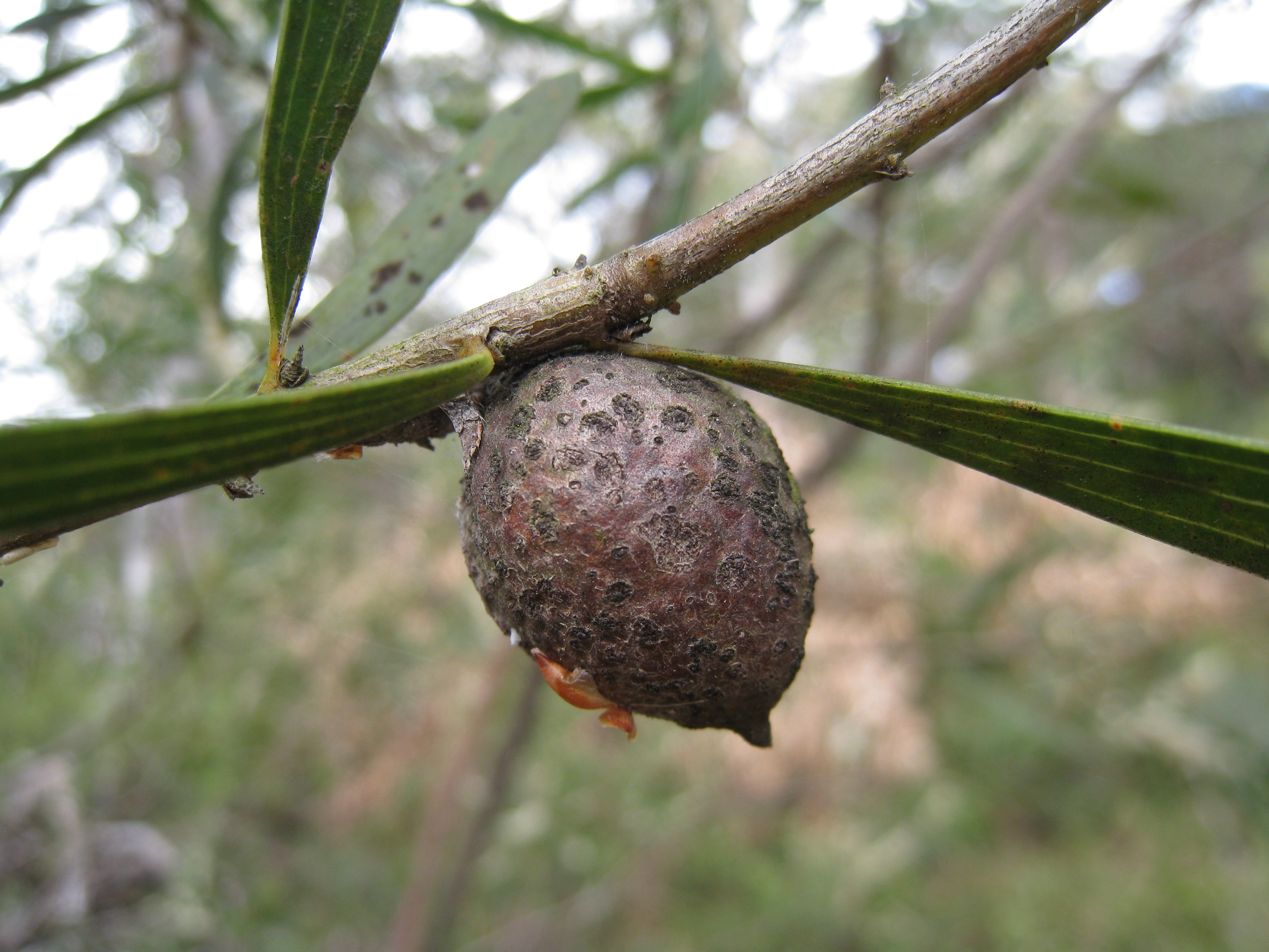 Broad-leaved Hakea, Hakea dactyloides. Paruna Reserve, Como NSW, Australia, October 2010.